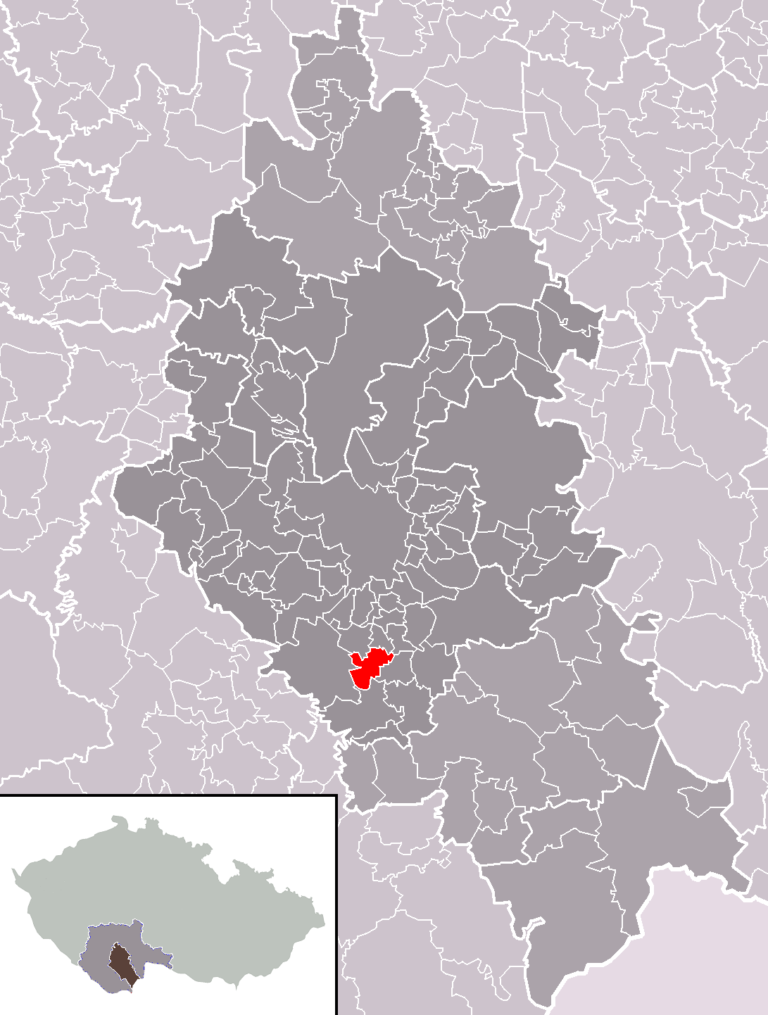 Location of Doudleby municipality within České Budějovice District and administrative area of České Budějovice as a Municipality with Extended Competence.